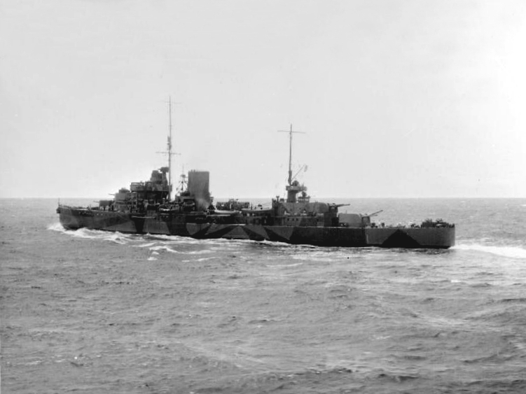 The British light cruiser HMS Leander (75) underway at sea, in 1945.